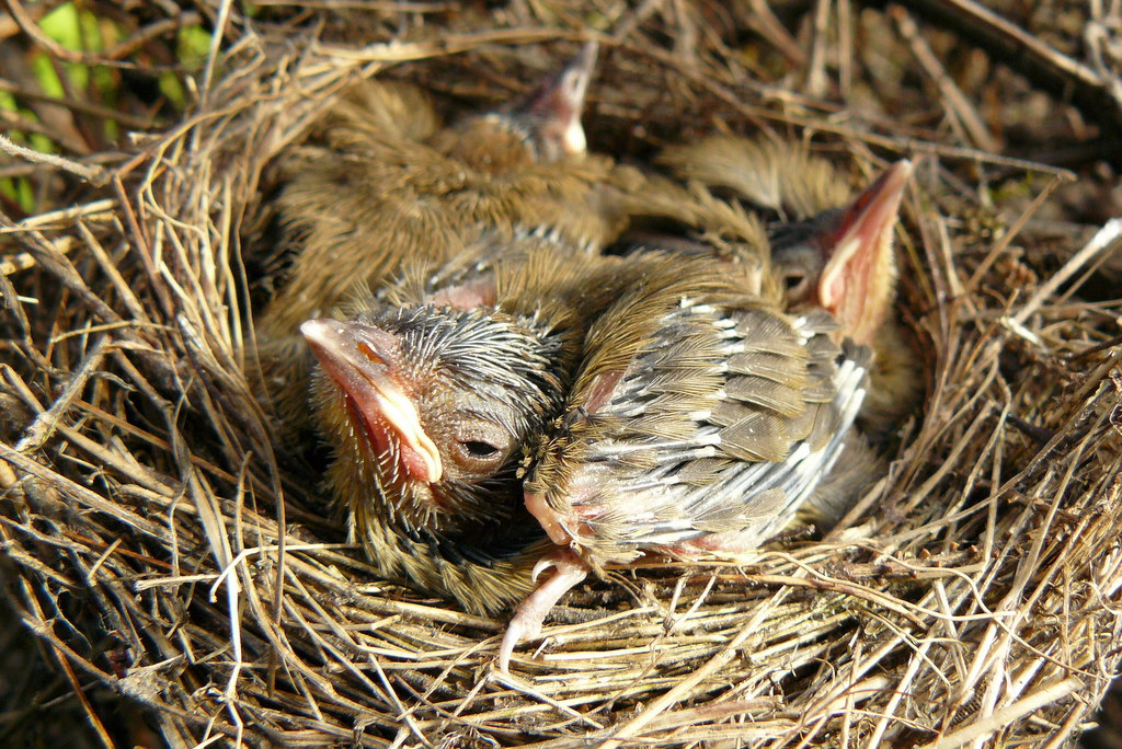 Sylvia atricapilla